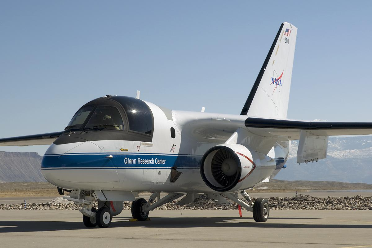 The NASA Glenn Research Center Lockheed S-3B Viking (civil registration N601NA, USN BuNo 160607) stops for fuel in Grand Junction, Colorado (USA) in 2009. This plane underwent modifications that transformed it from an anti-submarine U.S. Navy aircraft to a state-of-the-art NASA research aircraft. While capable of a wide variety of science and aeronautics missions, the revamped S-3 will begin its research career studying airplane engine icing. (NASA text)